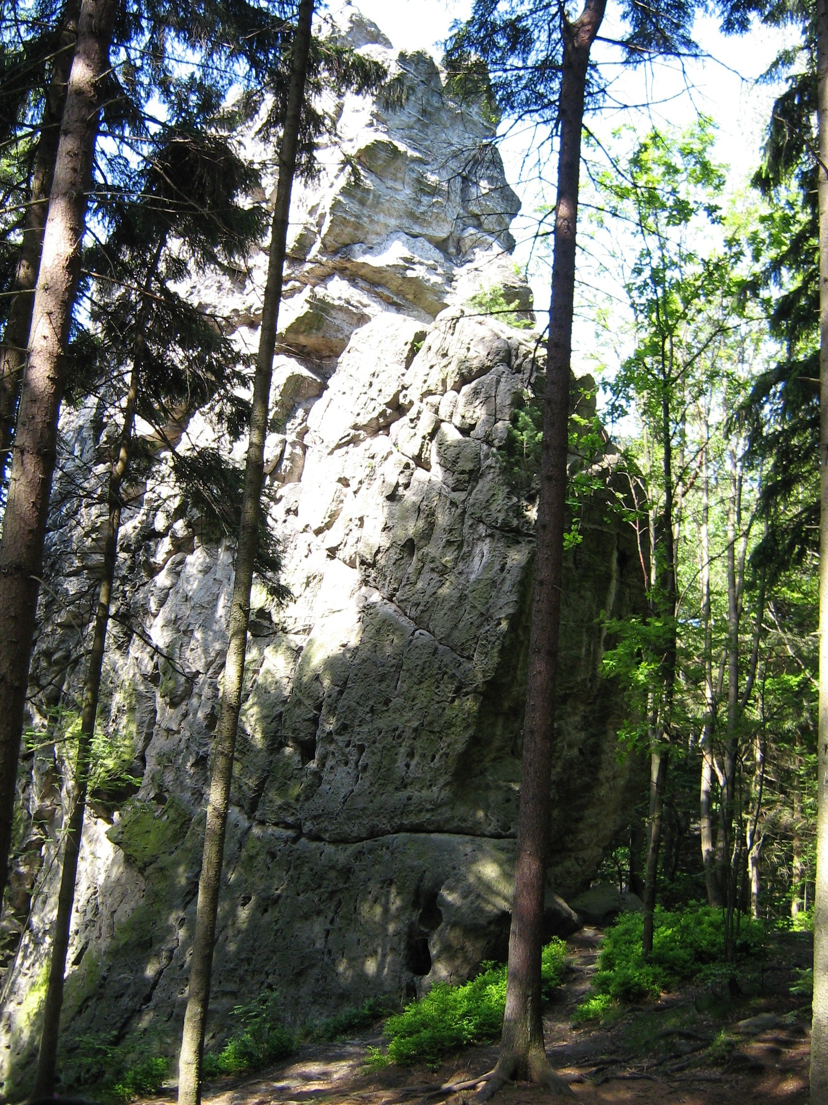 The Rock Großer Totenstein in the Rabensteinen in the Lusatian Mountains.